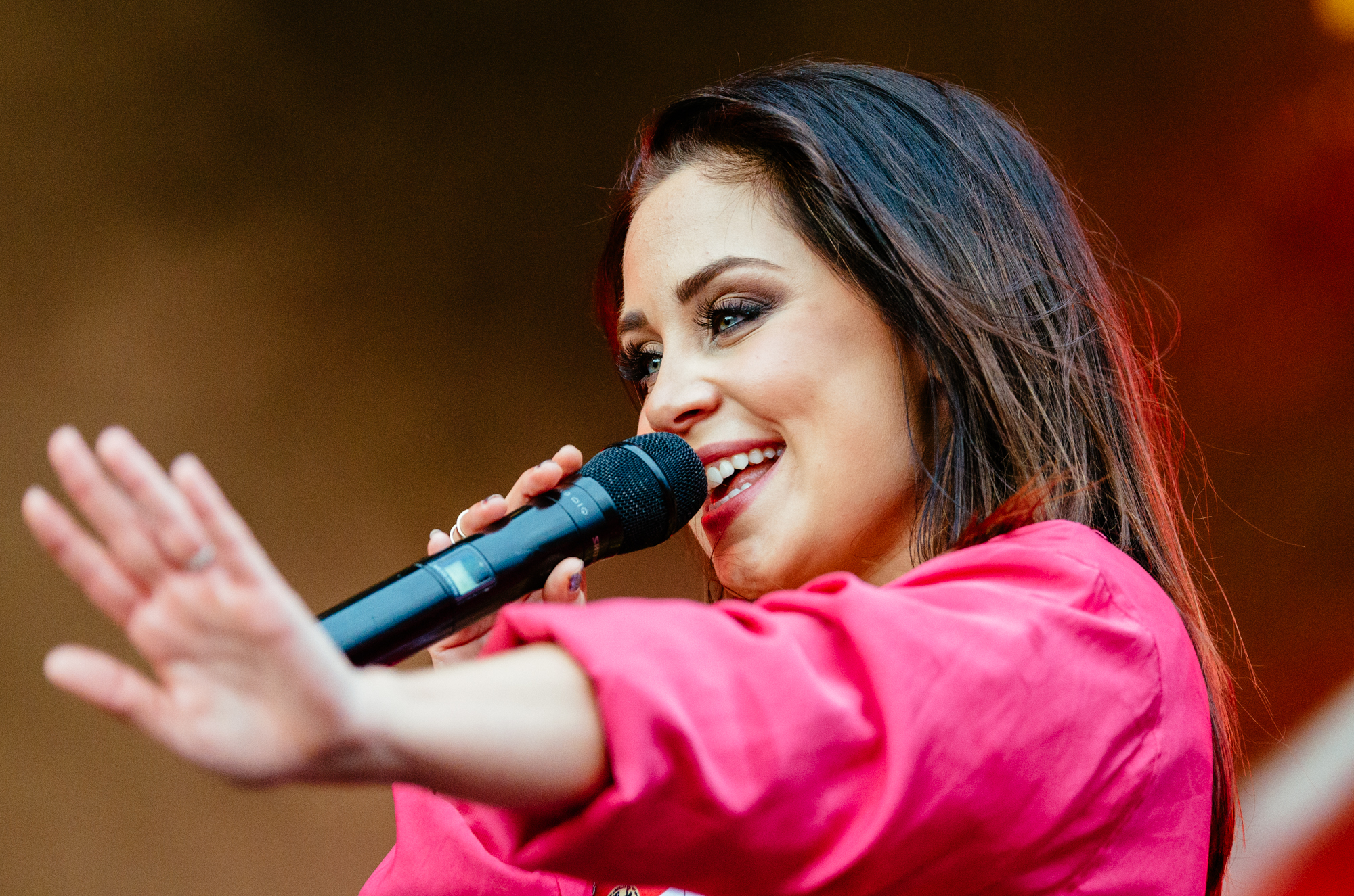 Anna Abreu in 2014 in YleX PoP Oulu.